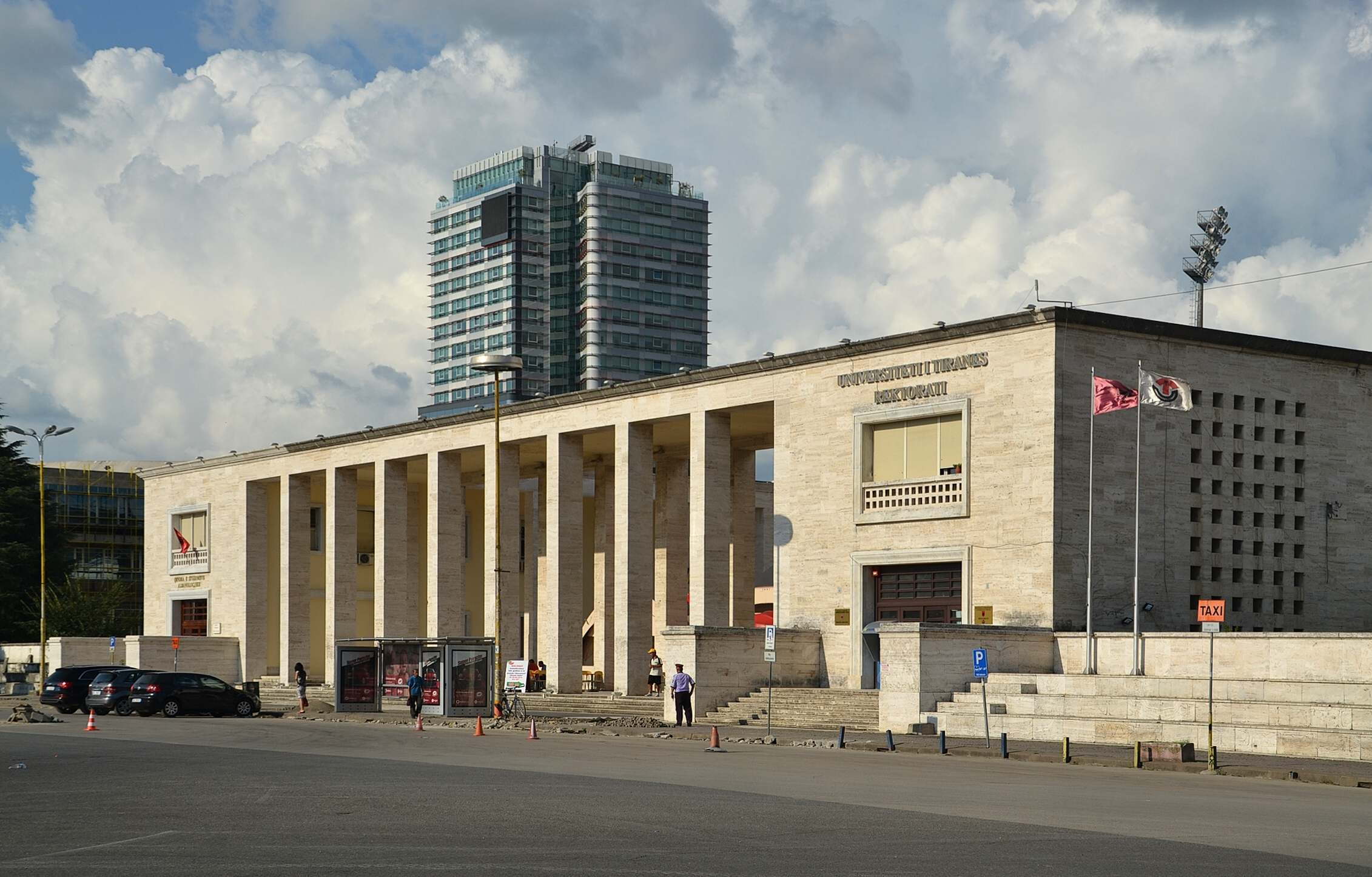 Archeological Museum and University in Tirana, Albania